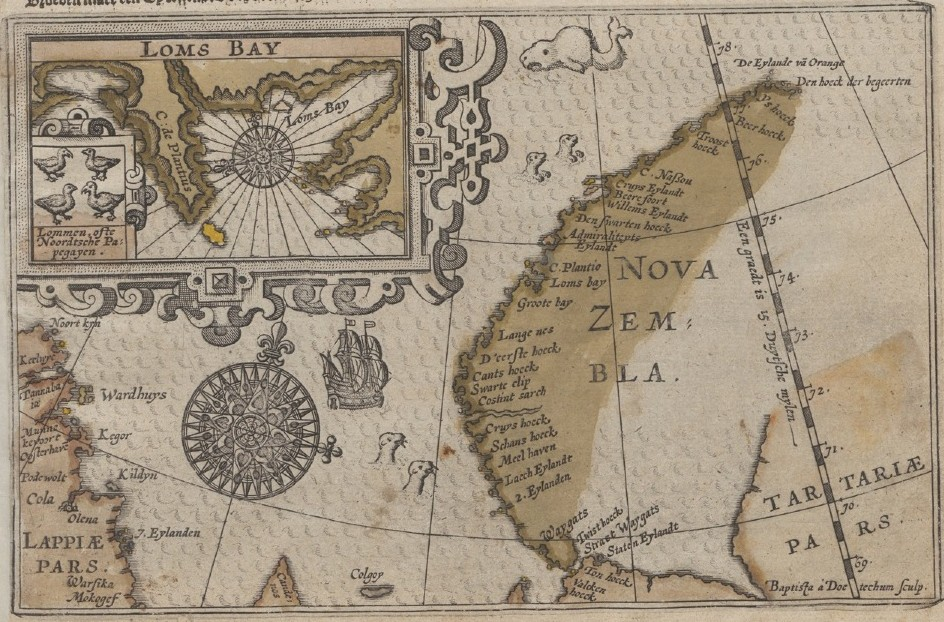 Illustration from Gerrit de Veer - Waerachtighe beschryvinghe van drie seylagien - edition published in 1605